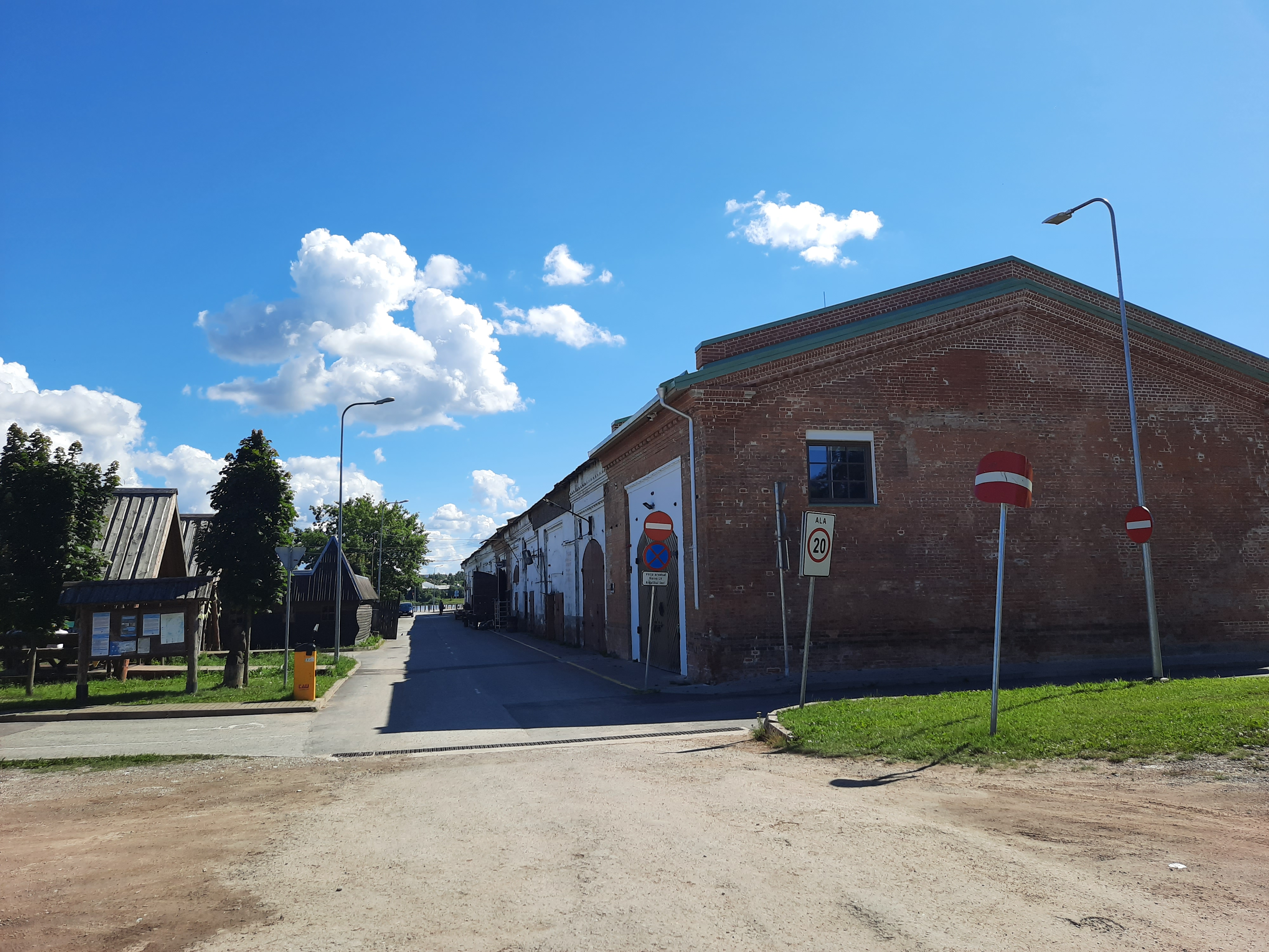 Kreenholm Manufacturing Company